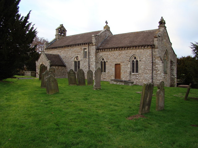 St Michael and All Saints Another view of this Swaledale church near Downholme.